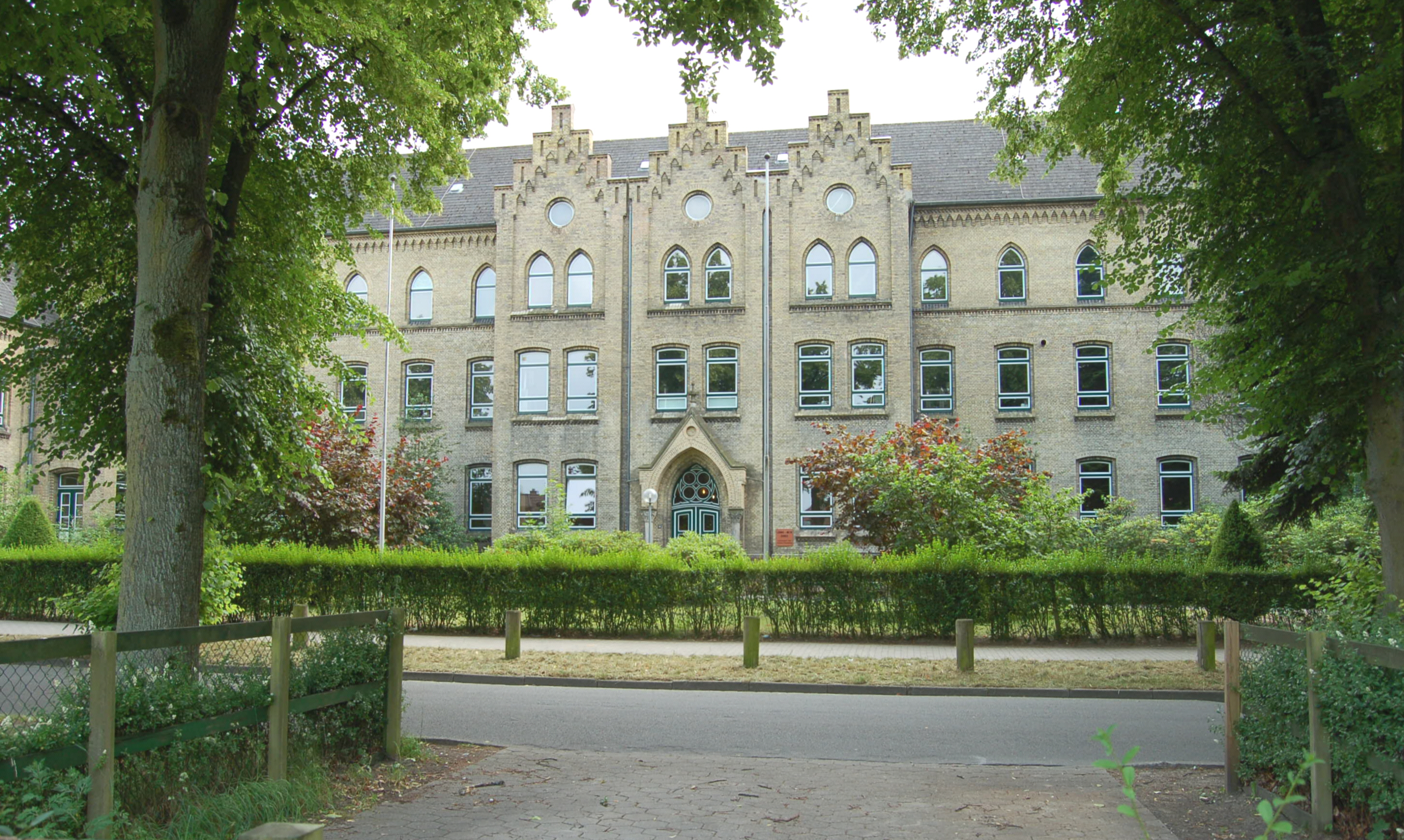 The Ludwig Meyn School Uetersen